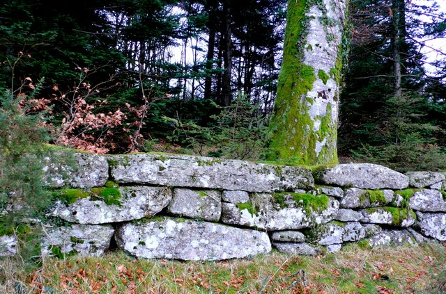 Beech Tree and Dry Stone Wall, Dartmeet, Dartmoor. A long length of wall was made up of these immense slabs of stone on the road side just west of Dartmeet on the B3357 close to the junction with the Hexworthy road. They may have originated from the nearby quarry close to Huccaby Tor. This is the type of wall described by Rev. John Swete (d.1821) as built by Lord Ashburton on his nearby estate of Spitchwick (this wall is possibly within his former vast Widecombe-in-the-Moor estate): "...he raised a garden wall of such enormous blocks of moorstone that it hath been consider'd as the wonder of the country, and which doubtless may bid defiance to all attacks but that of an earthquake". (Gray, Todd & Rowe, Margery (Eds.), Travels in Georgian Devon: The Illustrated Journals of The Reverend John Swete, 1789-1800, 4 vols., Tiverton, 1999, Vol.1, p.103)